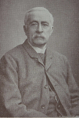 Ernst Candeze Belgian entomologist